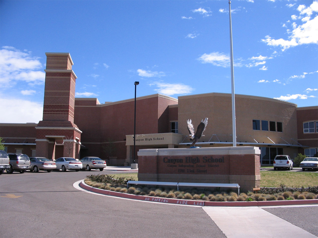 Canyon High School (Texas) in Canyon, Texas, USA. Photo by the uploader. Taken on April 7, 2006.